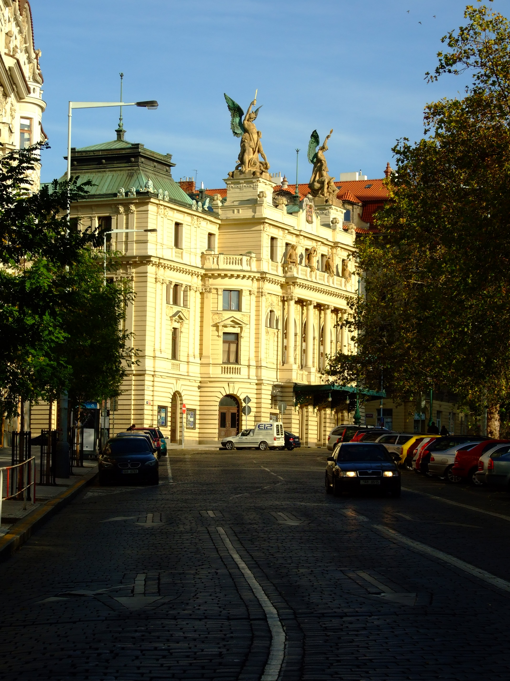 Vinohrady Theatre in Prague-Vinohrady, CZhelp